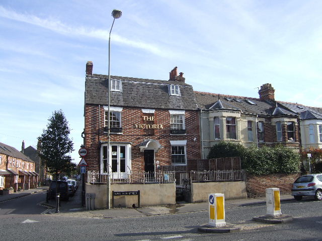 The Victoria, Jericho, Oxford, England. For many years this pub proudly proclaimed its Banks's ownership following the 1980s expansion south, by the Wolverhampton and Dudley Brewery, into Oxfordshire. Friendly 'corporate' local, selling a good pint of Marstons which is another story. On the north end of Walton Street, with a view down St Bernard's Road on the left.